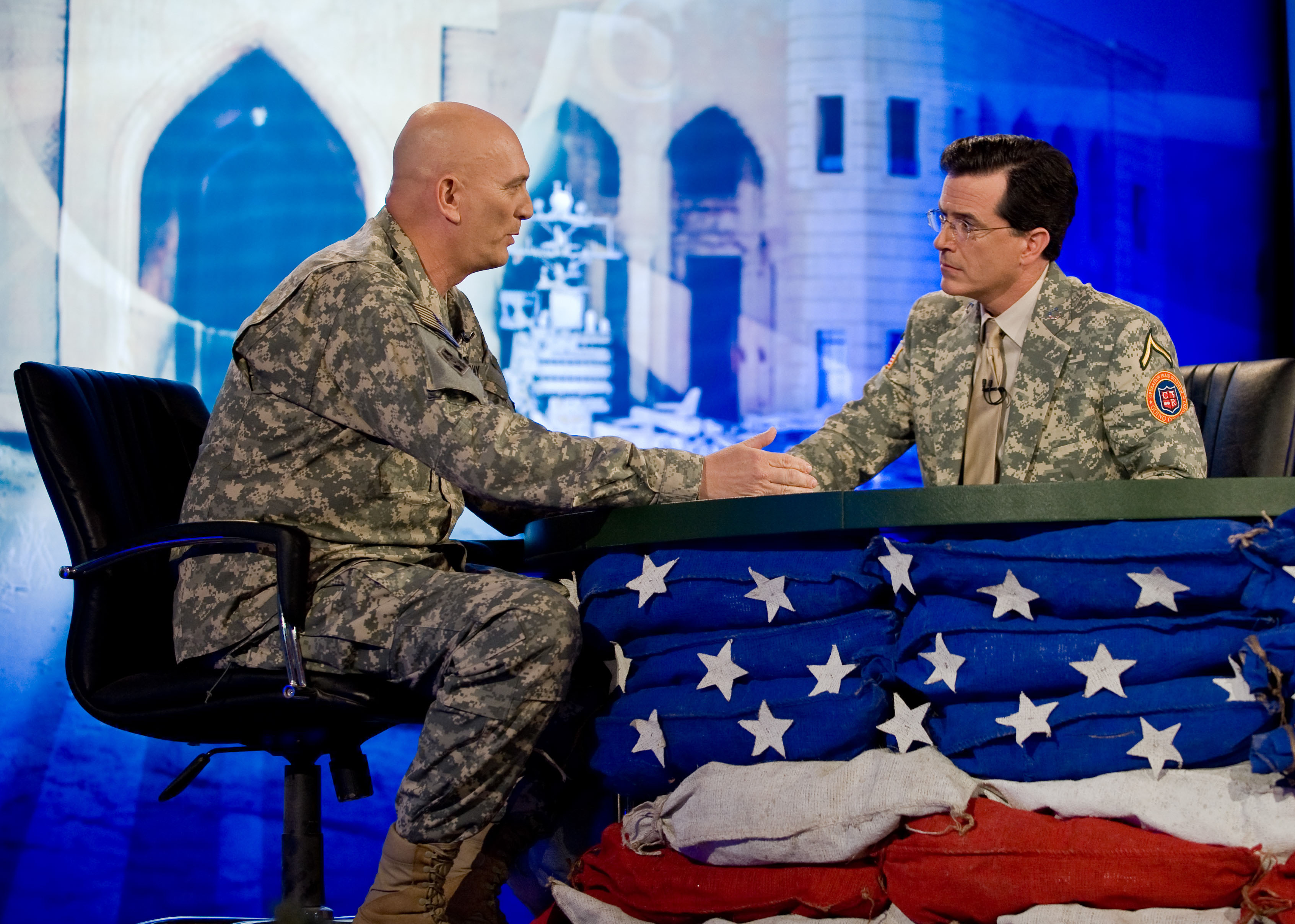 Stephen Colbert interviews special guest Gen. Ray Odierno, Commanding General of the Multi-National Force-Iraq during Monday night's episode of "The Colbert Report" Colbert entertains, brings smiles to troops in Iraq